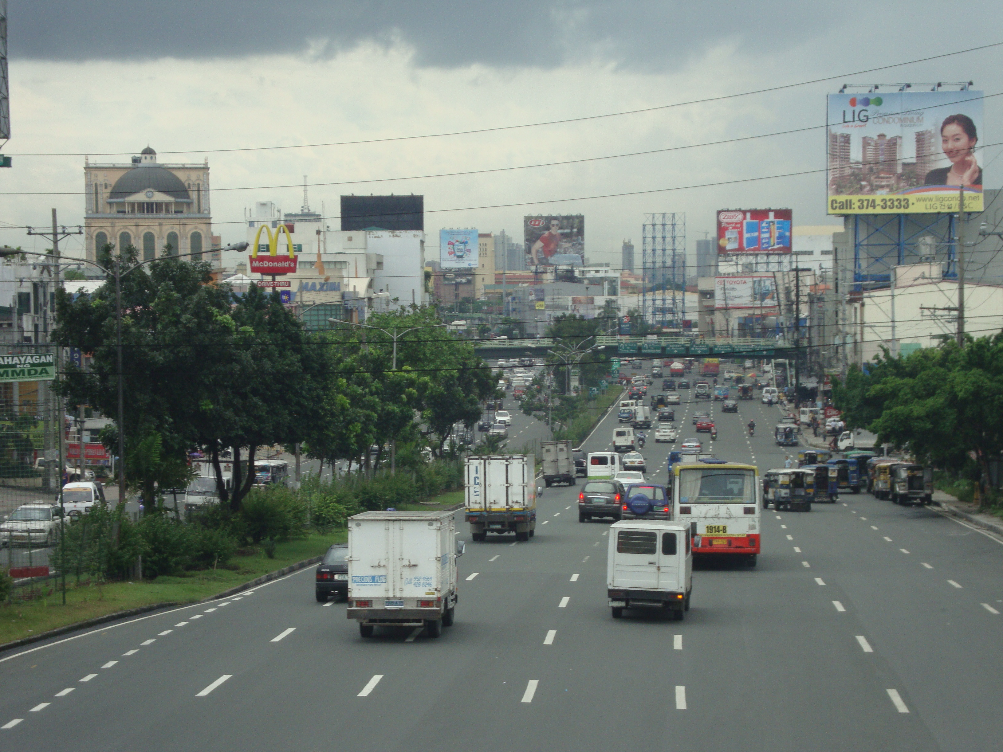 Quezon Avenue in Quezon City